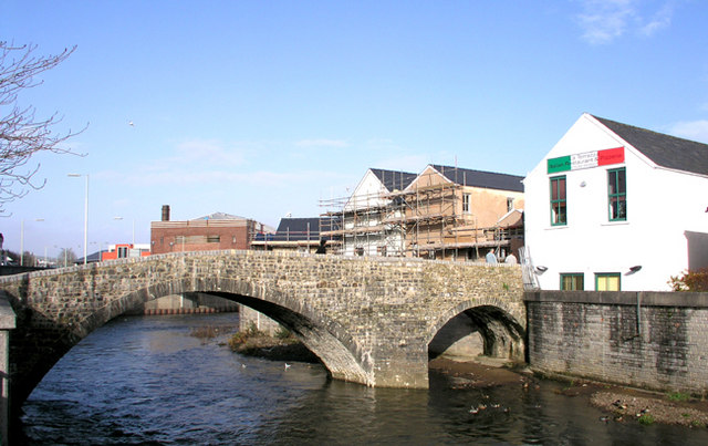 The Old Bridge - Yr Hen Bont, Bridgend This bridge over the Ogmore River in the town centre was built in 1425, repaired in 1775 and recently restored in 2005